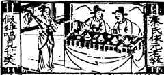 A depiction from a famous Bao Zheng case: Chen Shimei listening to his abandoned wife Lady Qin playing the pipa.